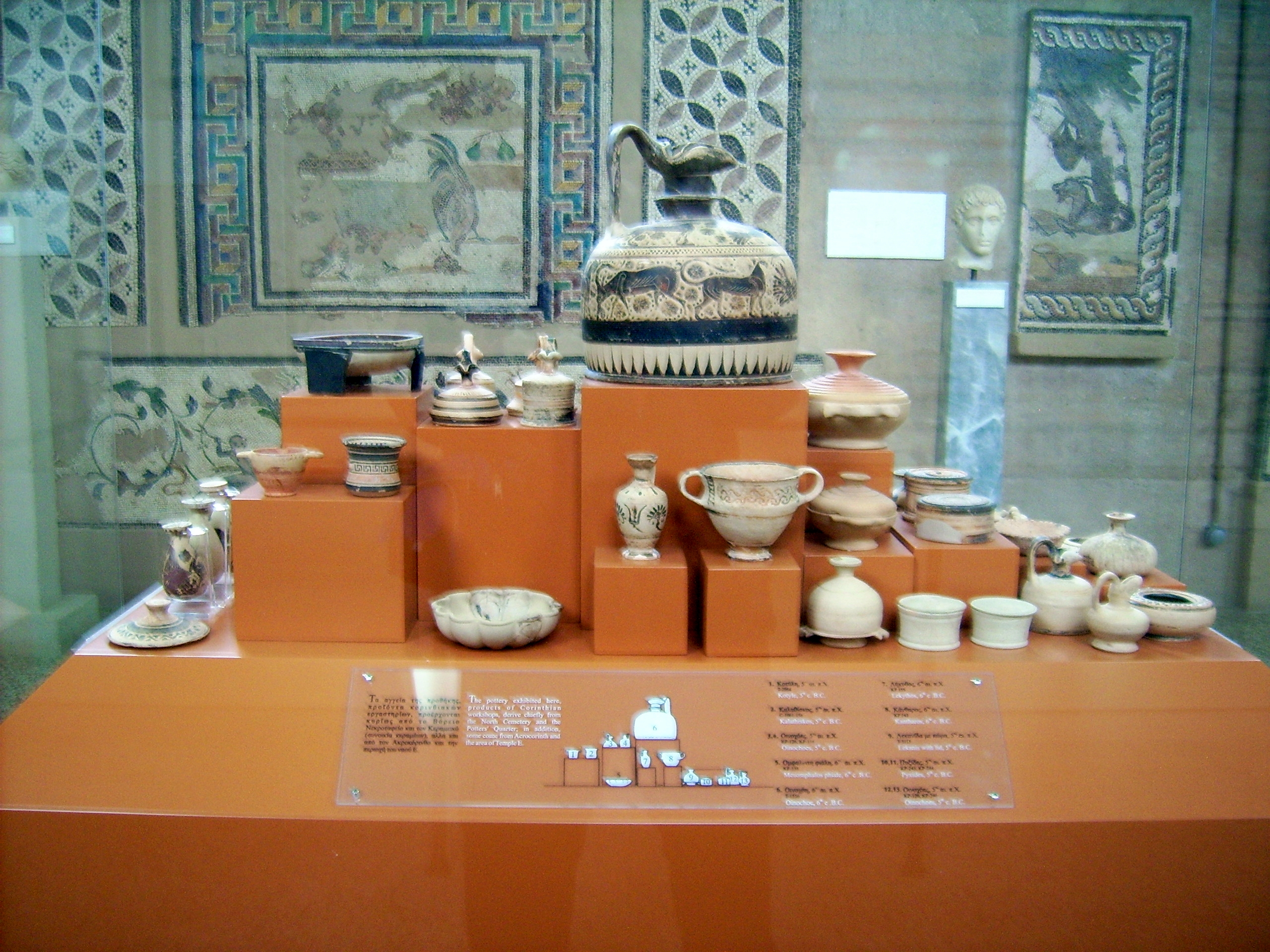 Corinthian ceramics in the museum of Corinth